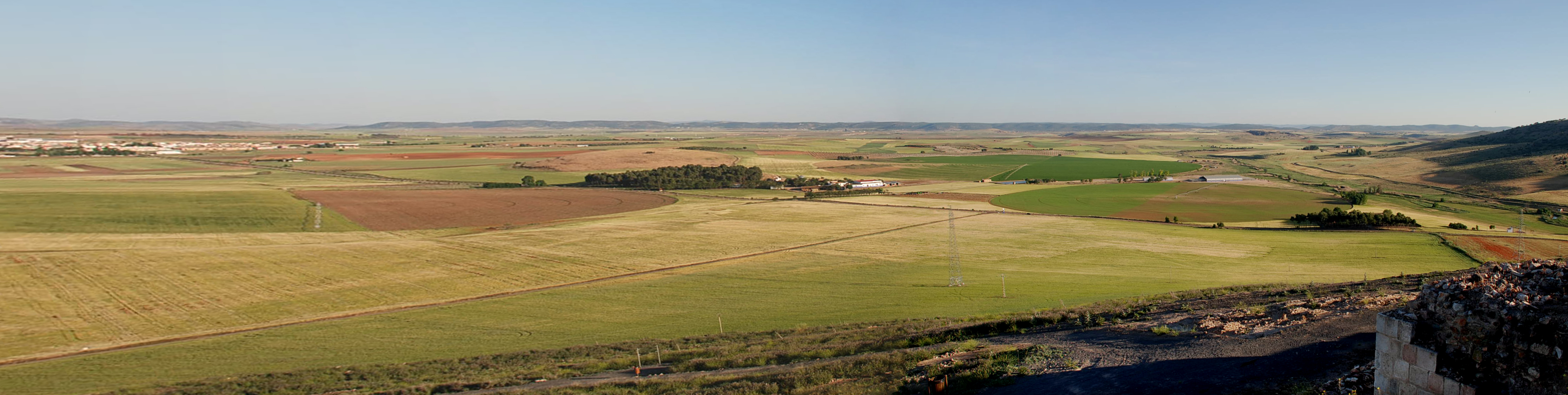 Battlefield of Alarcos (province of Ciudad Real, Castile-La Mancha).